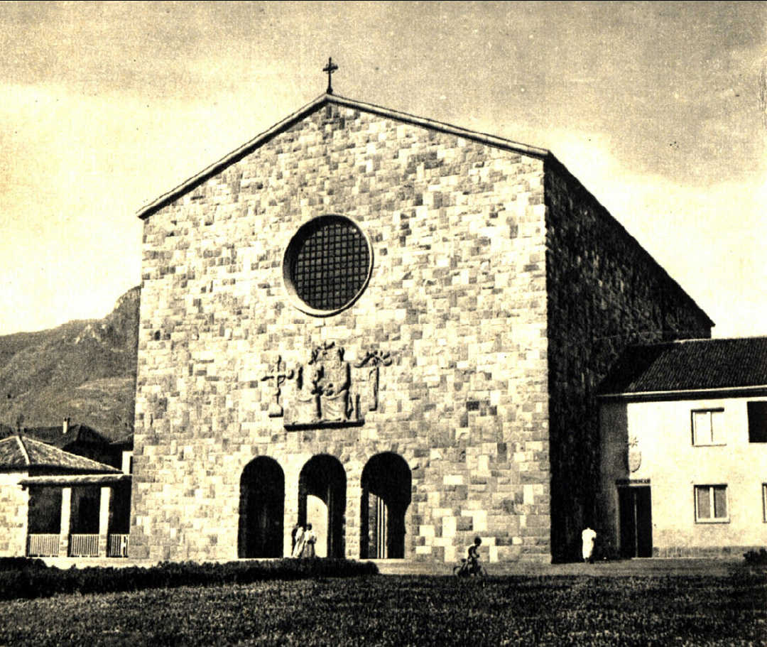 Christ the King Church in Bozen-Bolzano ca 1940